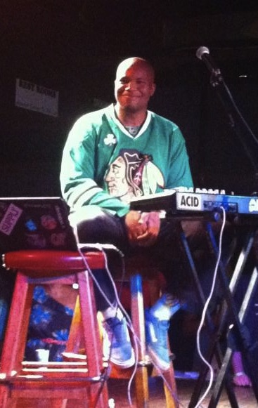 Matt Martians Live